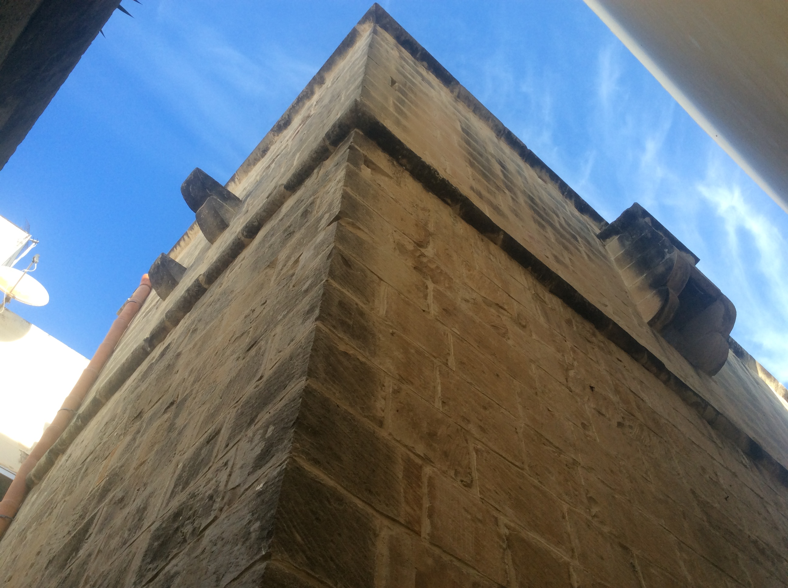 Tal-Wejter Tower from the back, Birkirkara Malta